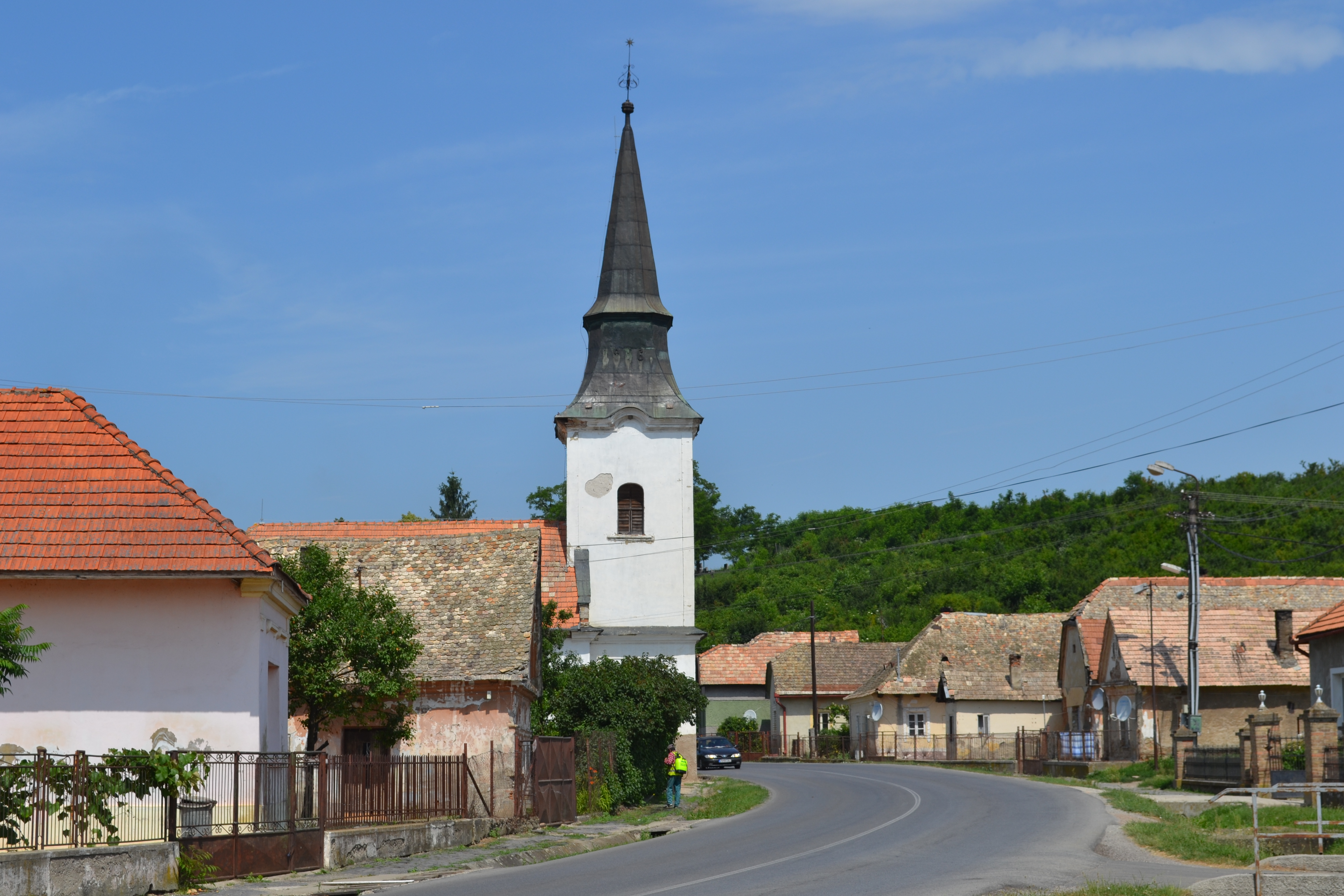 Street of the village Pavlovce